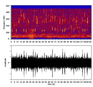 "In the example[s] shown here, time increases up the page and frequency increases to the right. Using spectrograms, a trained analyst can determine the nature of the received sound (in most cases)."